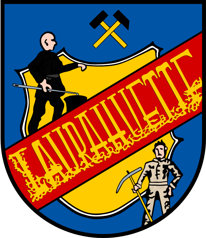 Coat of arms of the former municipality of Laurahütte.